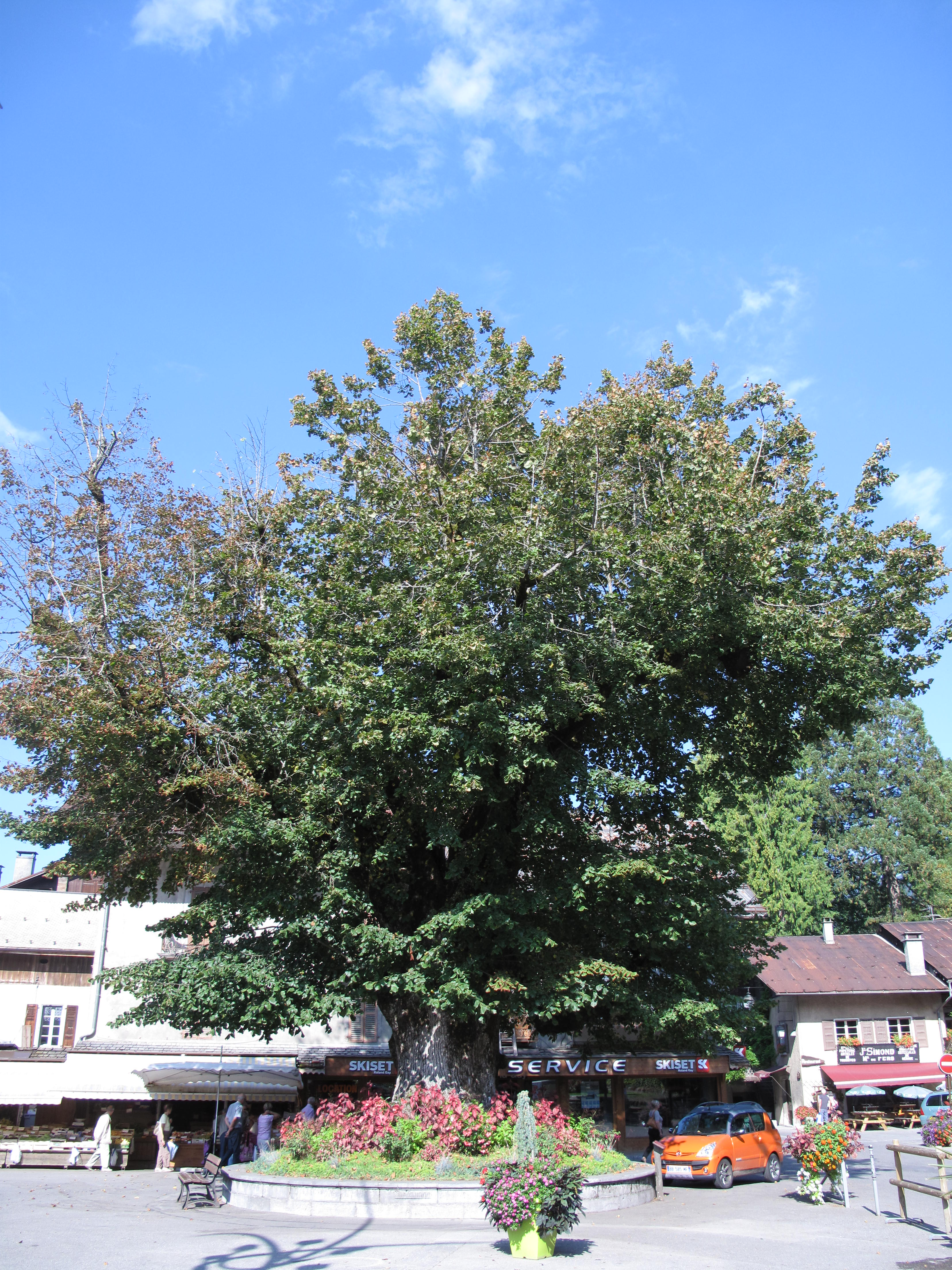 The "Gros Tilleul" (=Large lime tree) in Samoëns (Haute-Savoie, France).